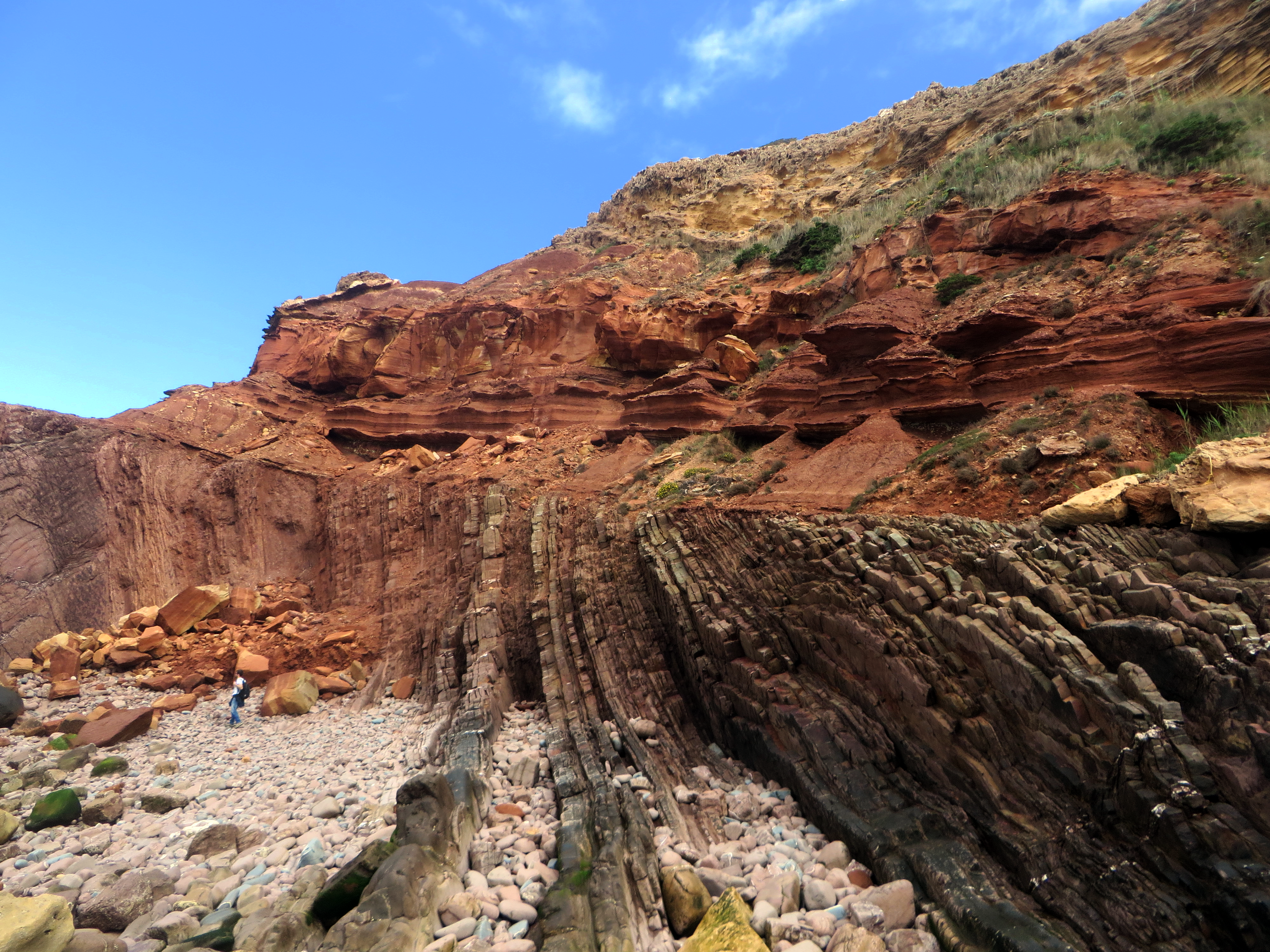 Angular unconformity at Praia do Telheiro, near Sagres in Algarve Portugal. It shows Late Triassic red and yellow planar sandstones resting on top of tilted black shales and greywackes of Carboniferous age, deformed during the Variscan orogeny. Credit: André Cortesão (distributed via )